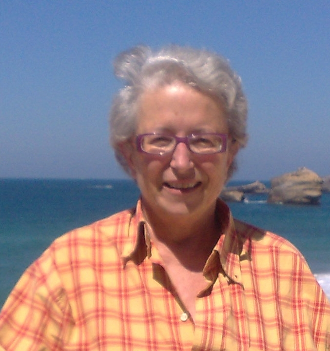 Argitxu (or Claire) Noblia, referential member of the ikastola (Basque-language schools) in the Northern Basque Country. Biarritz Book Fair, 2010.